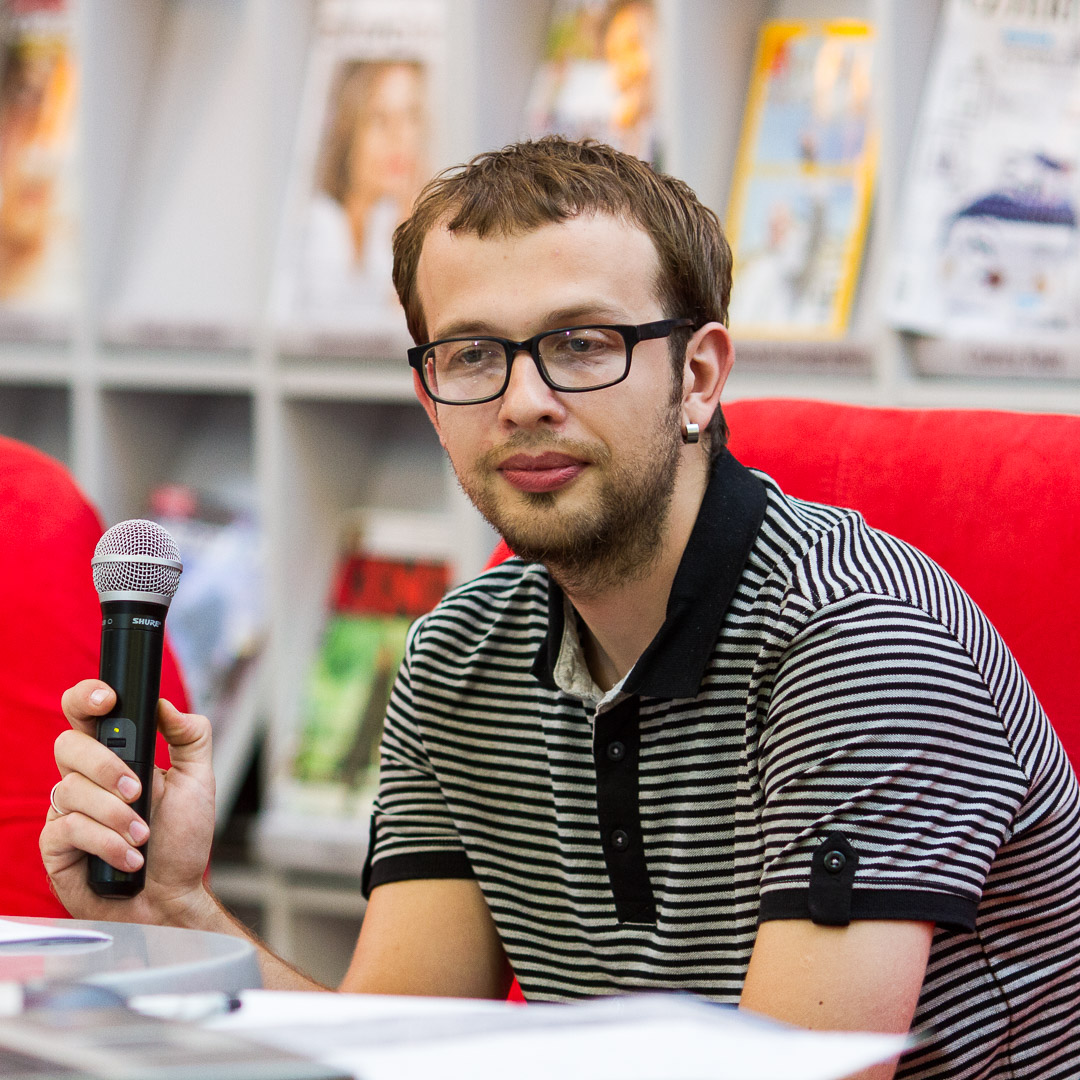 Les Belej on Authors’ Reading Month 2015, Wrocław, Poland